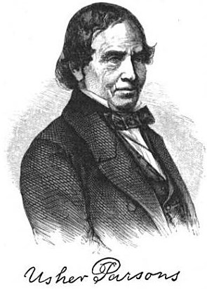 Illustration of Dr. Usher Parsons from Benson John Lossing's "The Pictorial Field-book of the War of 1812: Or, Illustrations, by Pen and Pencil, of the History, Biography, Scenery, Relics, and Traditions of the Last War for American Independence" (p. 516, c. 1868).